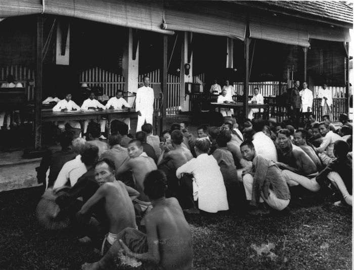 Photograph. Chinese workers await the preparation of their contracts by immigration officials at Medan's labor inspectorate